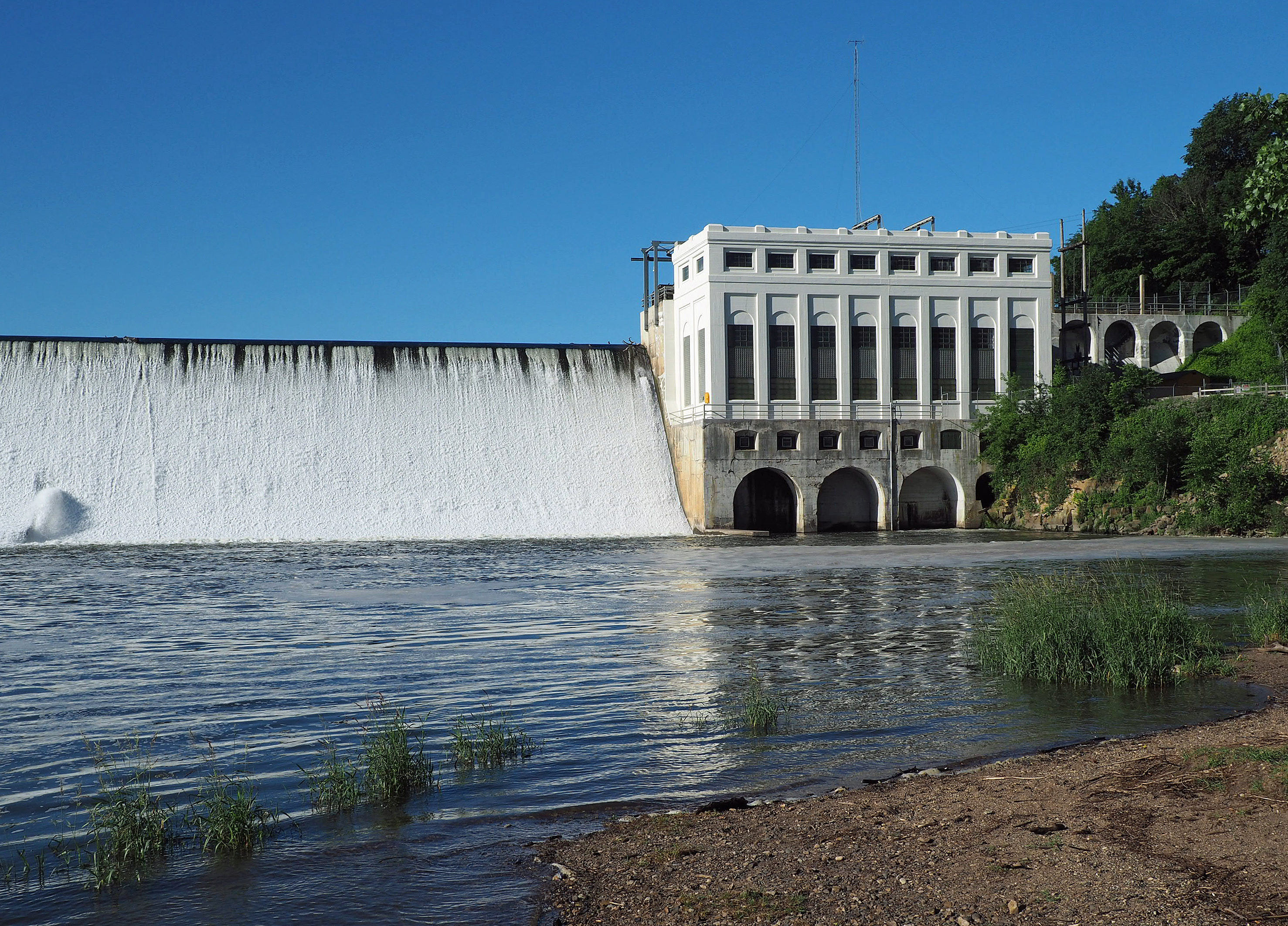 Lake Zumbro Hydroelectric Generating Plant and Dam, Mazeppa Township, Minnesota, USA. Viewed from the north. Taken with permission on private property (Mac's Place Park).